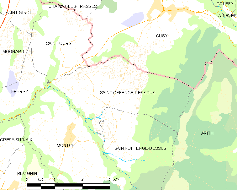 Map of French municipality Saint-Offenge-Dessous